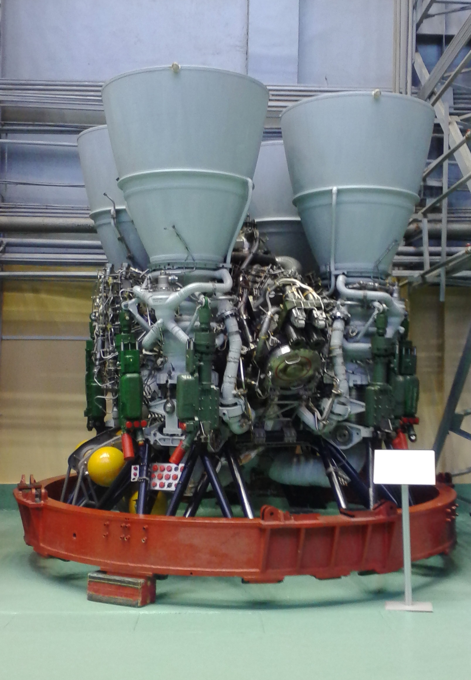 Rocket engine RD-170 in ZAO ZEM of RSC Energia museum